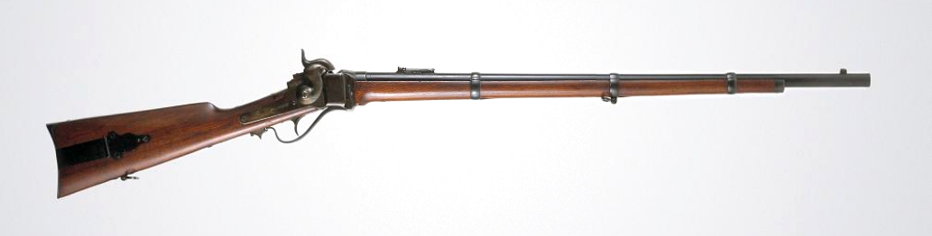 United States Sharps rifle Model 1859, .52 caliber. This type of rifle was carried by the 5th New York Zouaves.